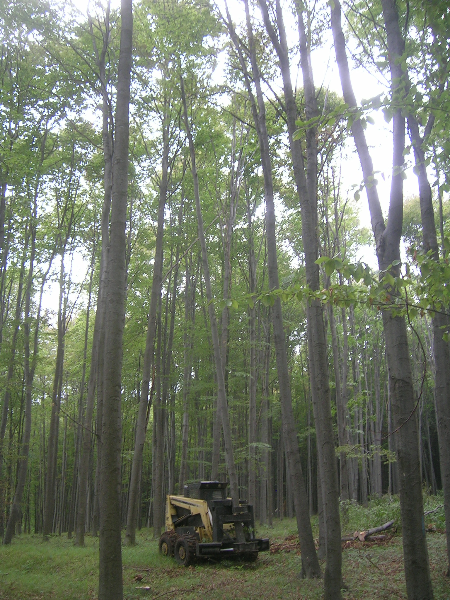 Thining timber in Hungarian wood land.